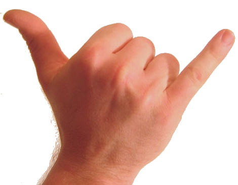 Edited photo of "shaka" gesture (hawaian).